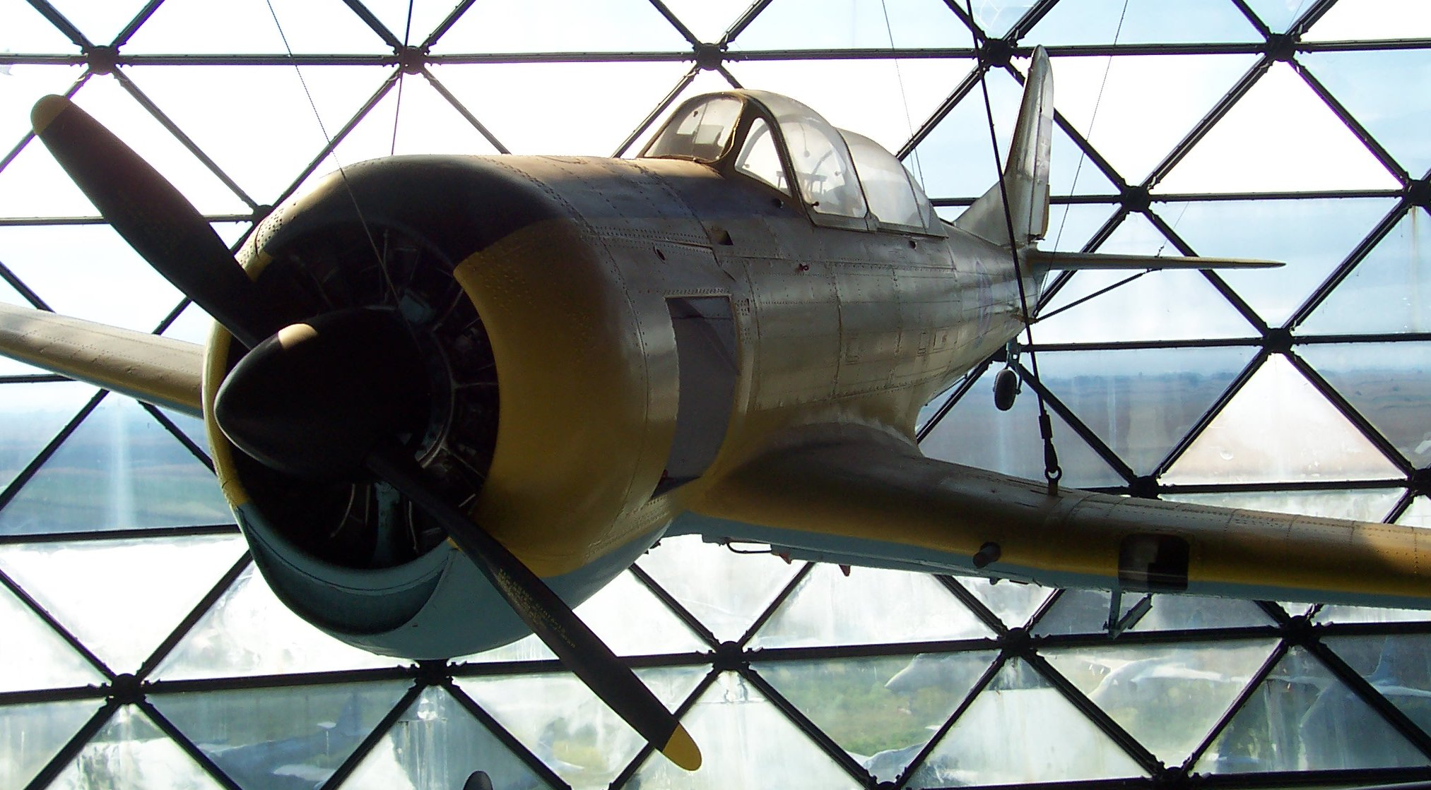 Image shows Yugoslav airplane type 522, in the Museum of Yugoslav Aviation, Belgrade, Serbia. Airplane was used for pilot training in 1950's and 1960's.